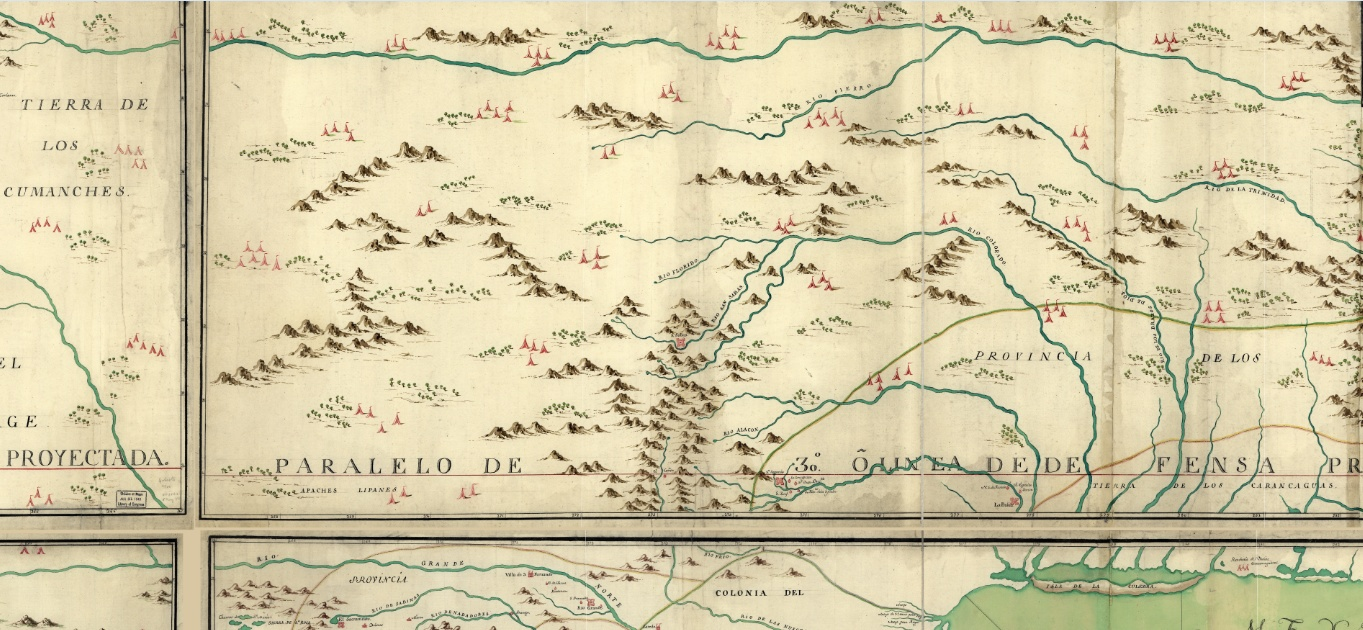 Map of Frontier by Urruttia, Lafora and Ruby, 1769